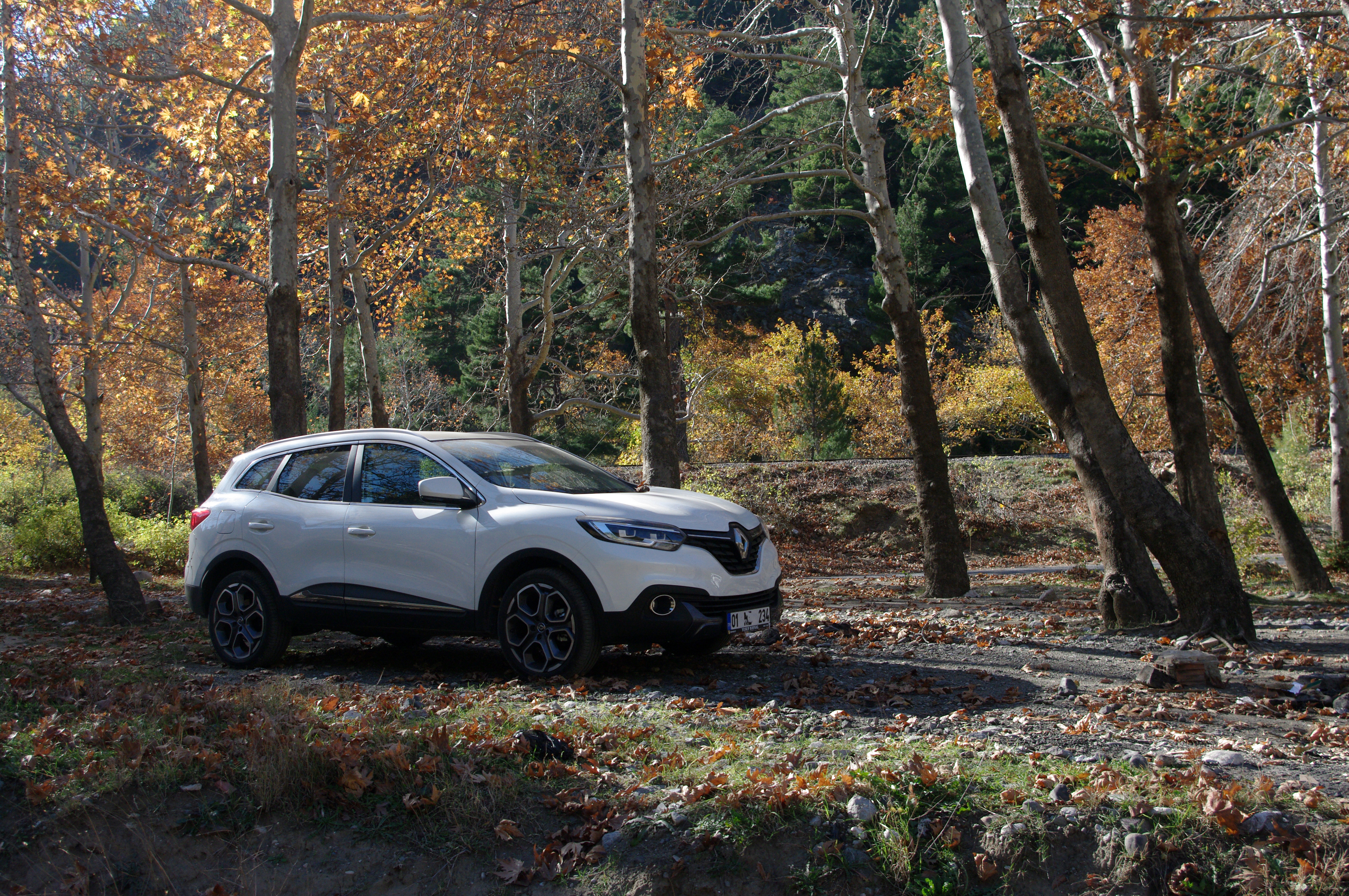 Kadjar, a SUV by Renault in Belemedik, Pozantı - Adana, Turkey.